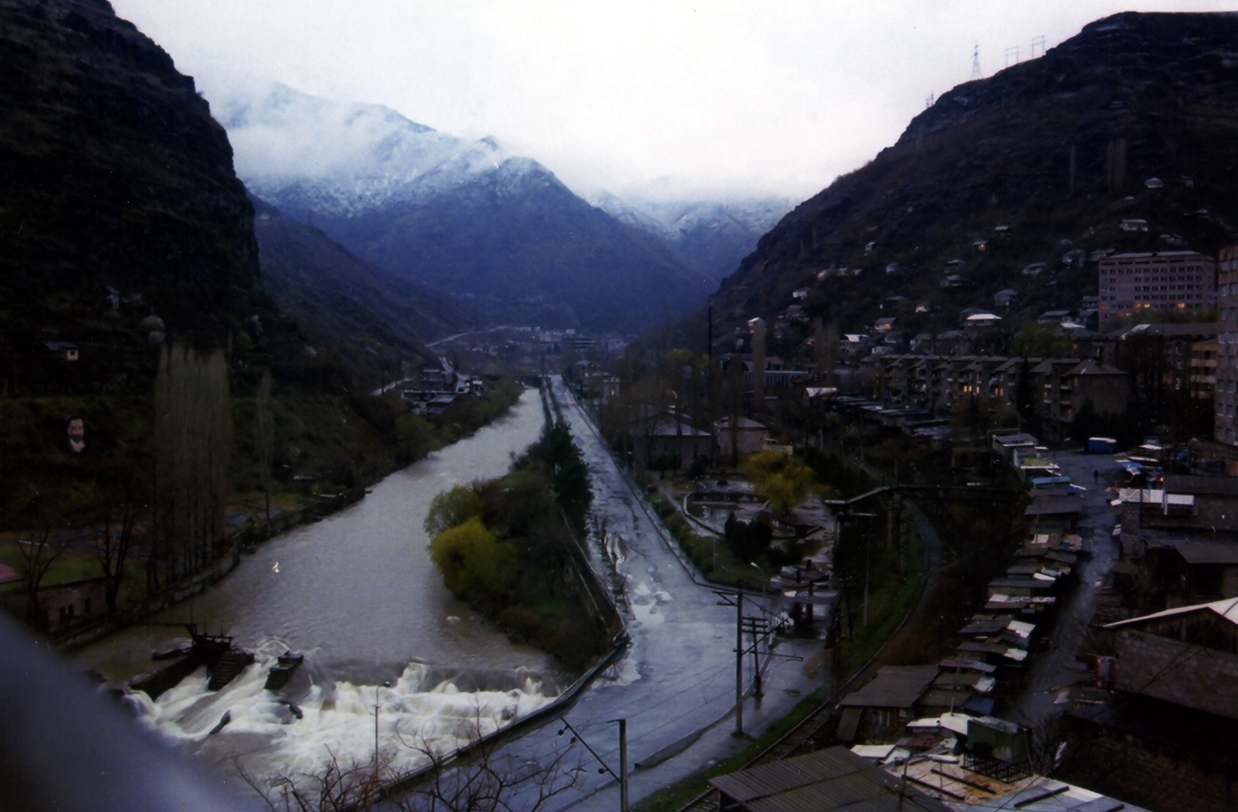 Dusk over Debed river in ALaverdi